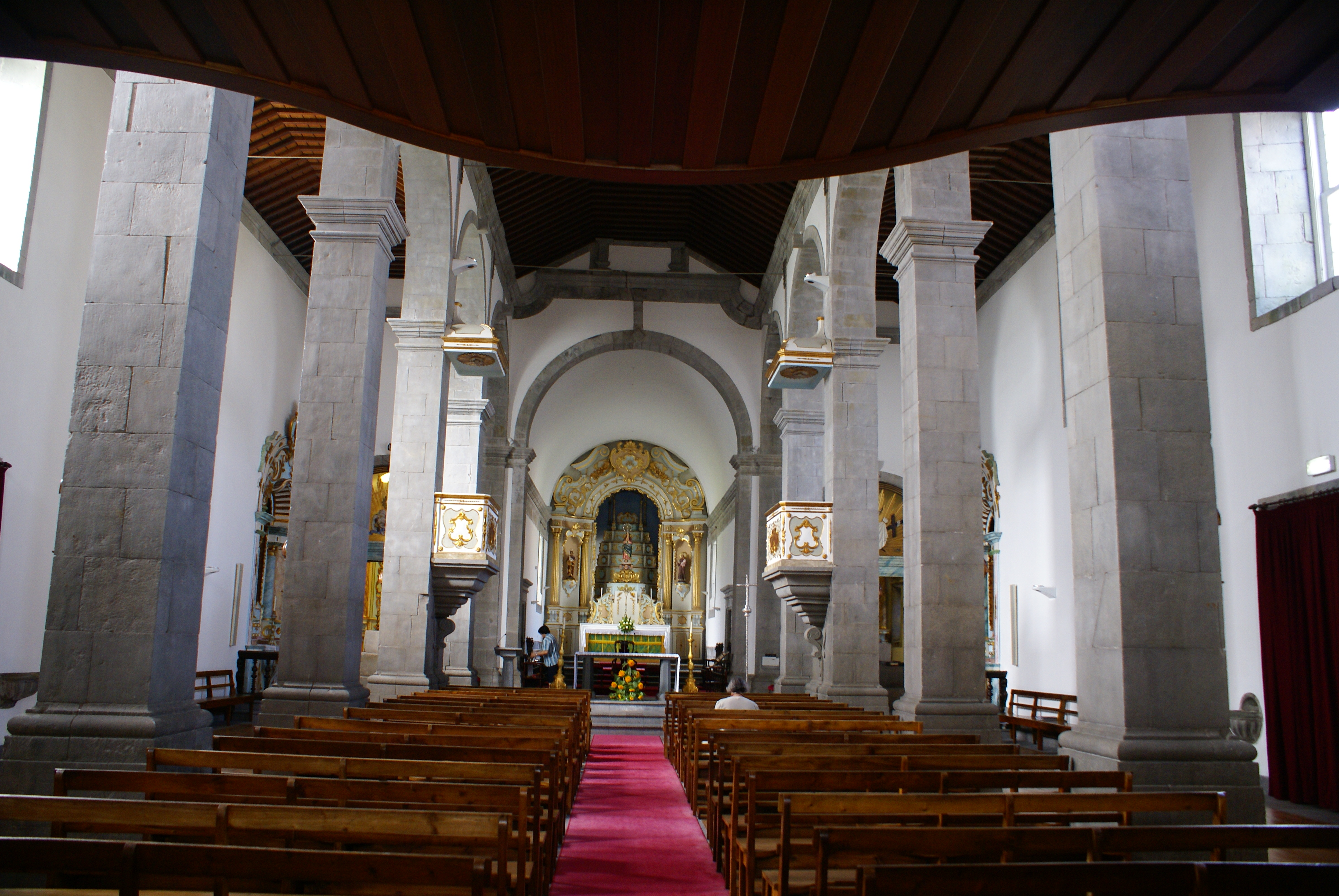 Igreja de Nossa Senhora da Graça, nave central, Praia do Almoxarife, Concelho da Horta, ilha do Faial, Açores, Portugal